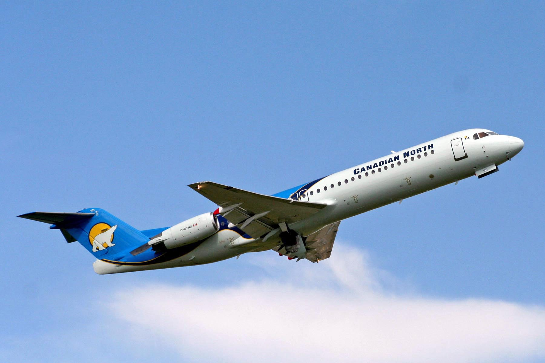 Canadian North Fokker 100 (C-GPNR) taking off from Calgary Airport, Alberta, Canada